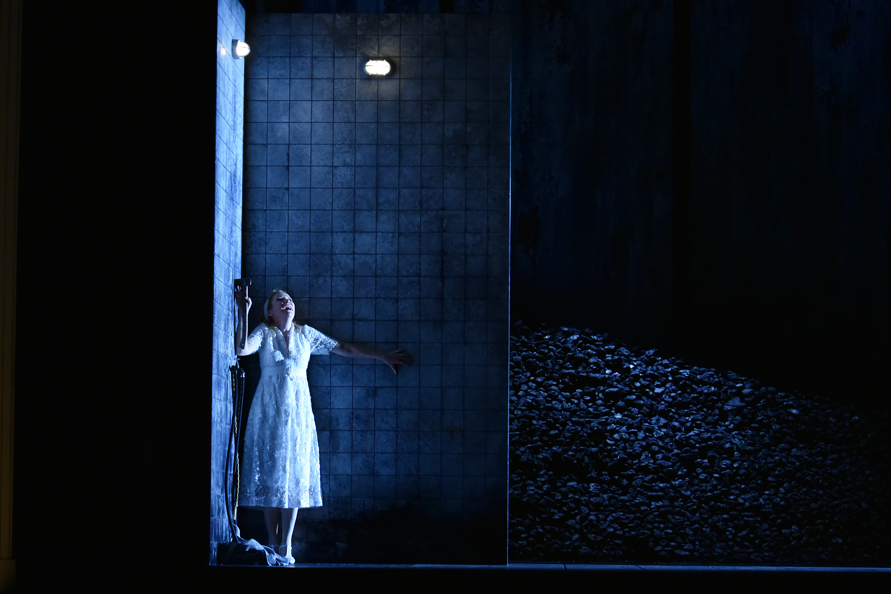 Elektra, Vienna State Opera 2015, directed by Uwe Eric Laufenberg